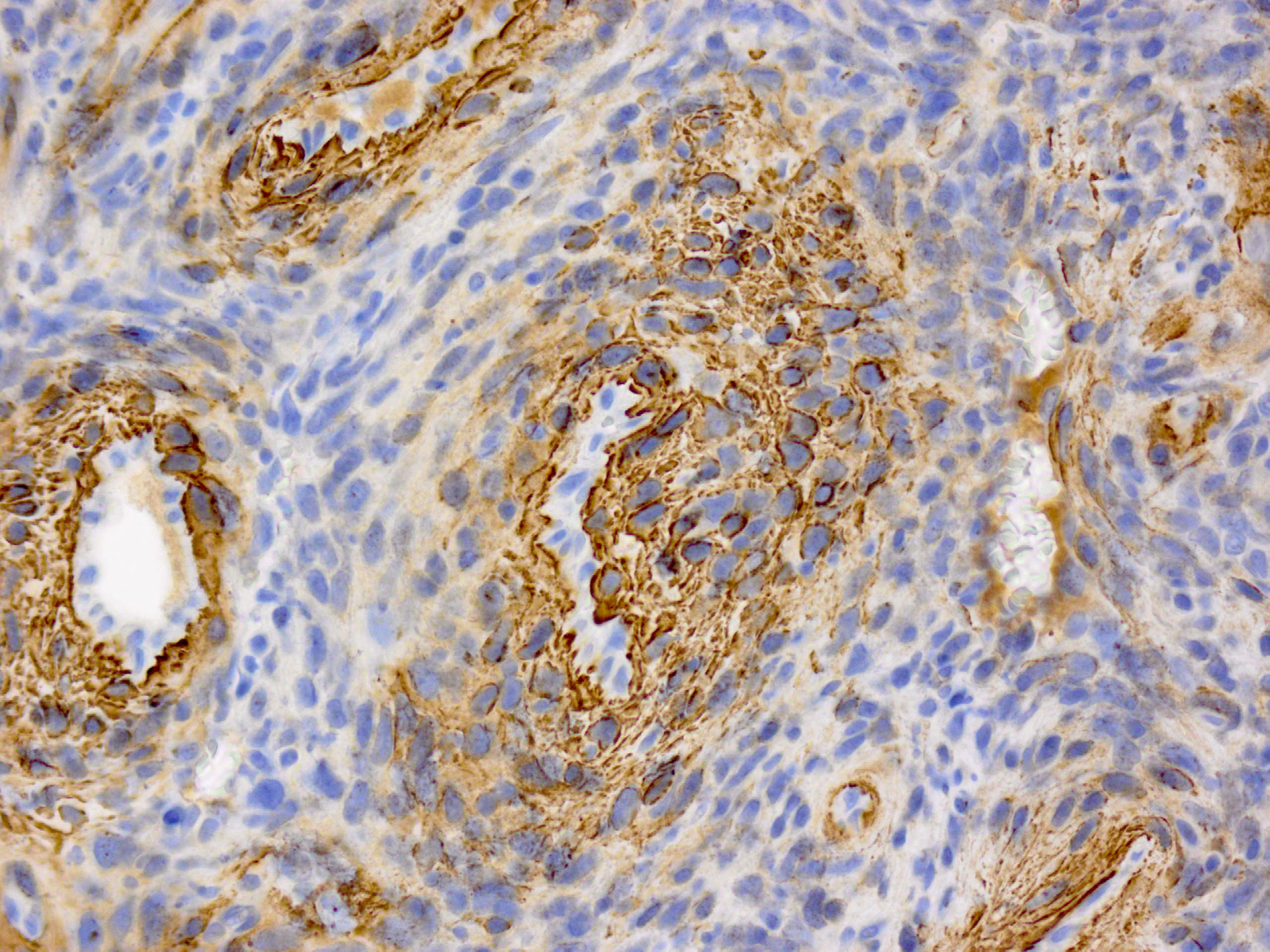 Histopathology of Myopericytoma, a benign mesenchym tumor. Immunohistochemical staining for smooth muscle aktin. Magnification 400x